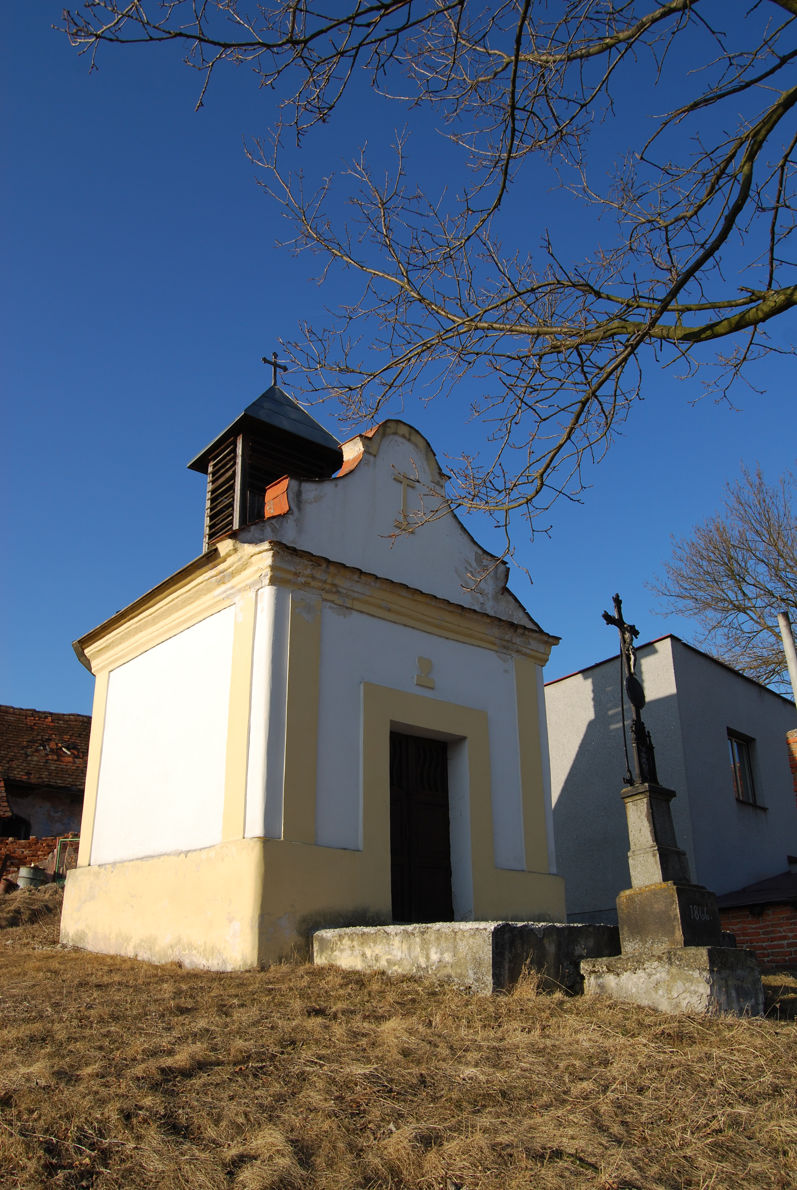 Petrovice, a village in Strakonice District, Czech Republic, a cross dating from 1866.